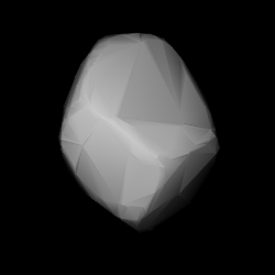 3D convex shape model of 3391 Sinon, computed using light curve inversion techniques. J. Hanuš, J. Ďurech, M. Brož, B. D. Warner (June 2011). "A study of asteroid pole-latitude distribution based on an extended set of shape models derived by the lightcurve inversion method". Astronomy and Astrophysics 530: A134. ISSN 0004-6361. arXiv